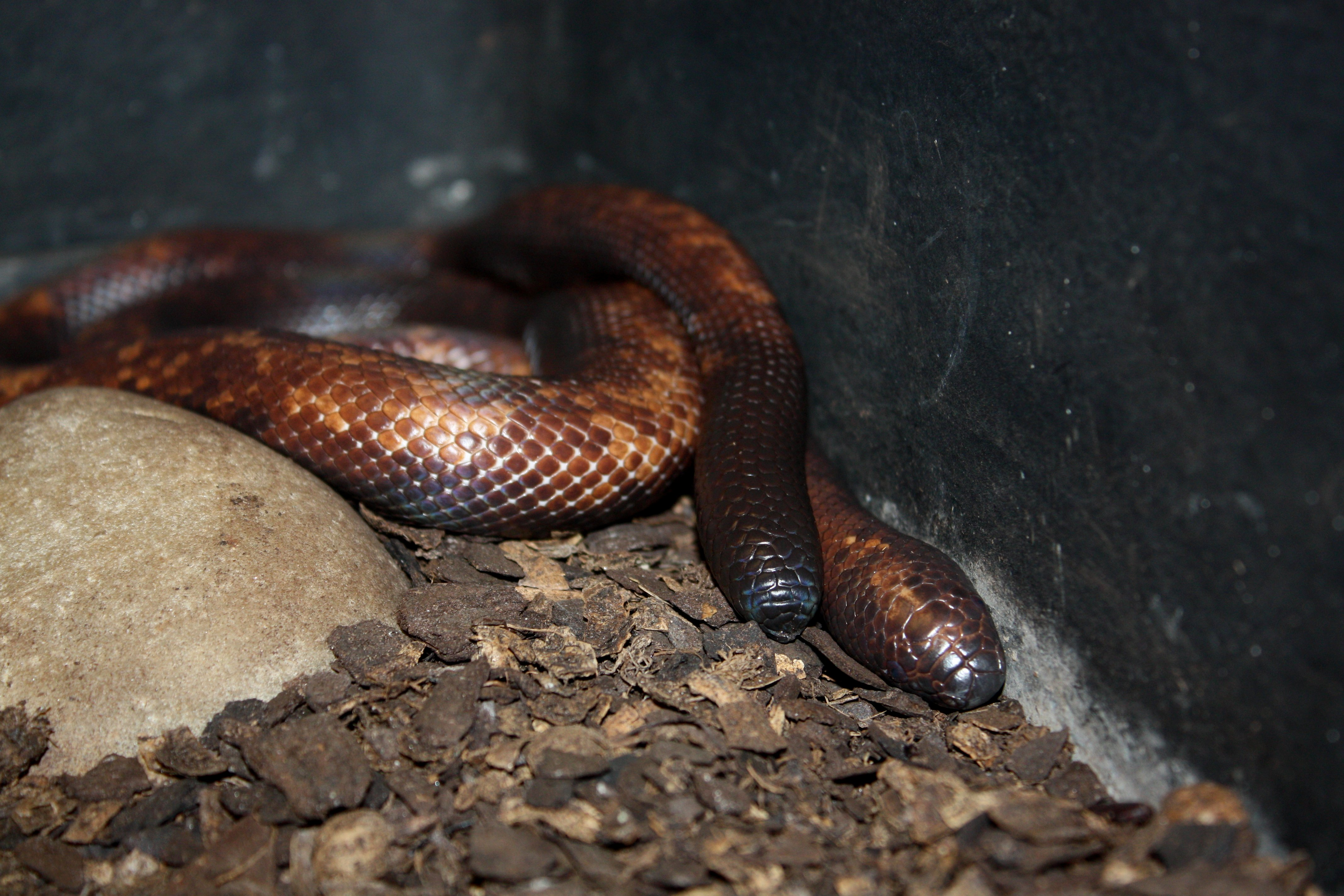 Calabar Serpent (Charina reinhardtii) at Louisville Zoo